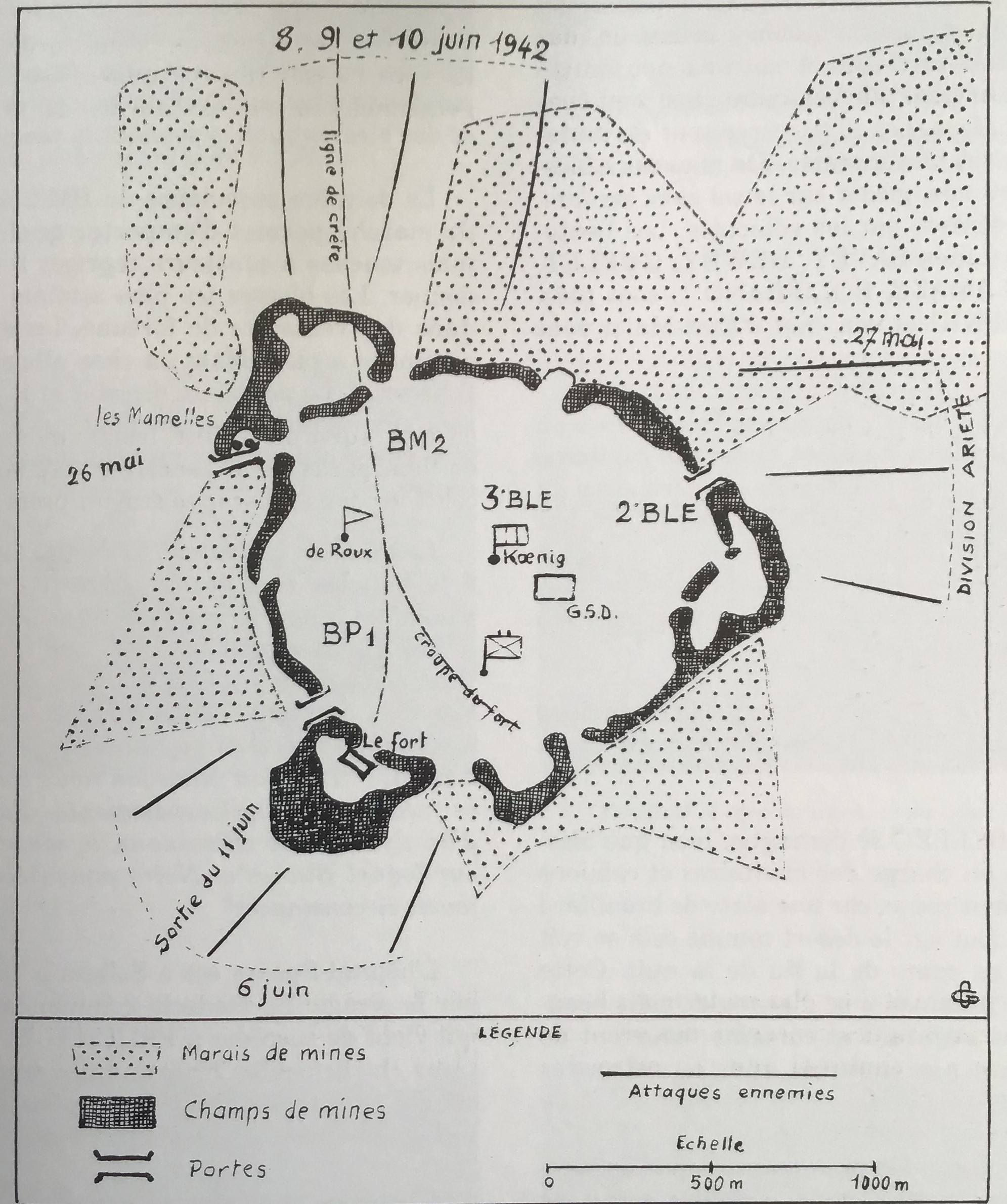 Drawing of the Bir Hakeim Entrenched Camp, May-June 1942, by Guy Chauliac (GC)